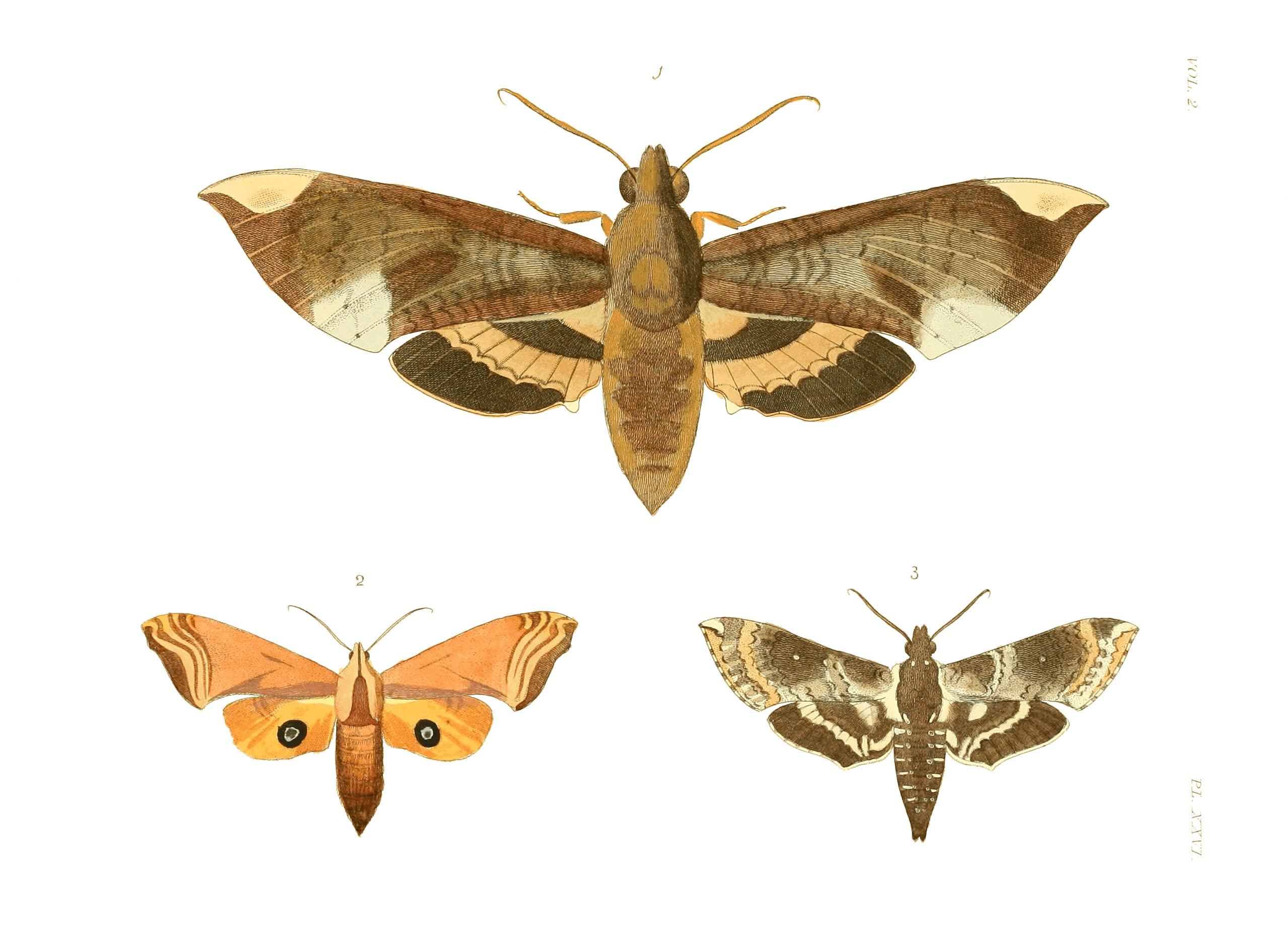 Plate XXVI. 1. SPHINX FICUS (= Pachylia ficus). 2. SMERINTHUS ASTYLUS (= Paonias astylus). 3. SPHINX HYLÆUS (sic for hyloeus Drury) (= Dolba hyloeus).